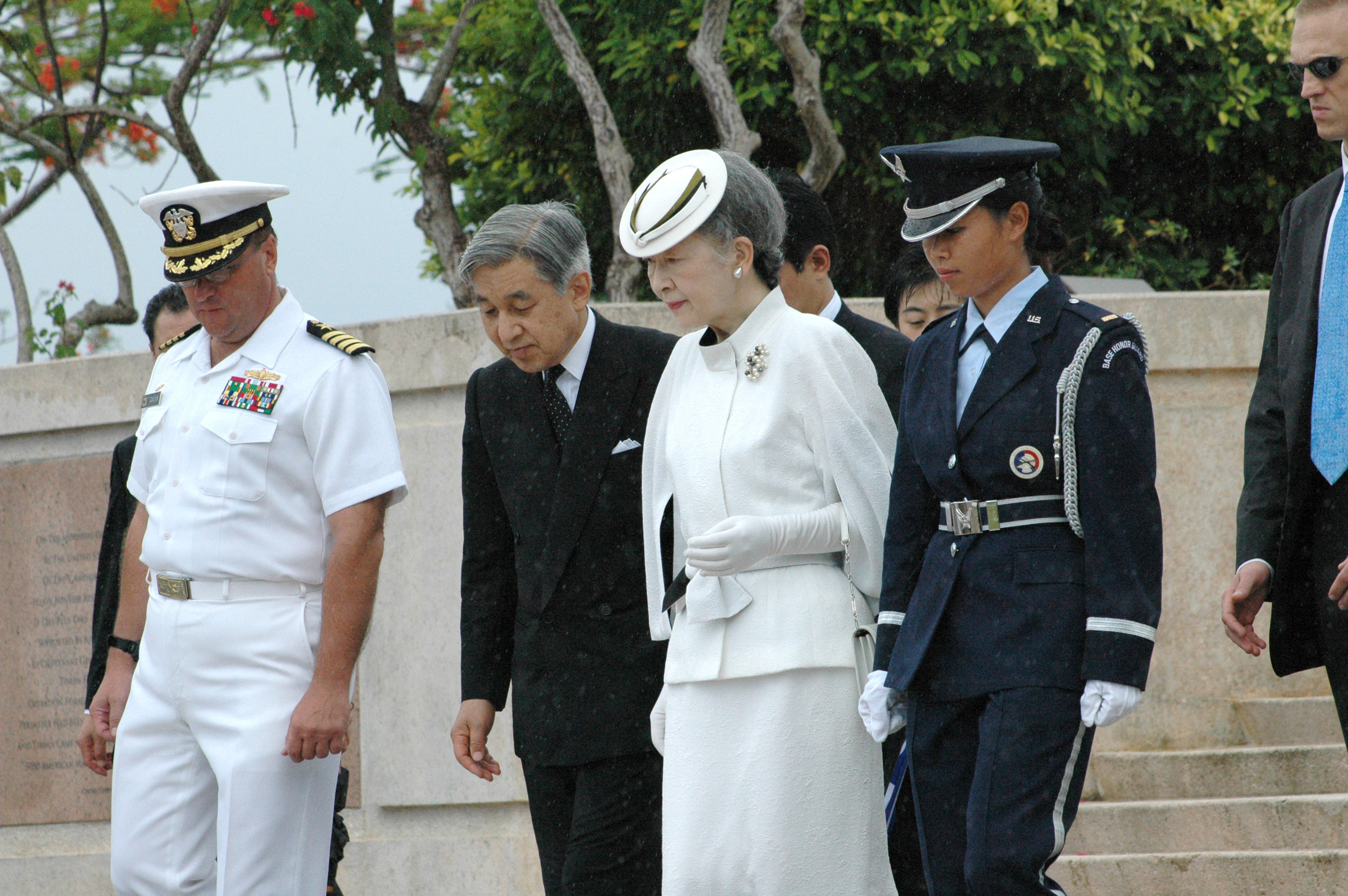 Garapan, Saipan (June 28, 2005) – U.S. Navy Capt. Conrad Divis and U.S. Air Force 2nd Lieutenant Kazumi Udagawa escort the emperor and empress of Japan from the Court of Honor at the American Memorial Park during a historic visit by the royal family of Japan. Japanese Emperor Akihito and Empress Michiko made their first-ever trip to commemorate a World War II battle. The royal couple took time on Saipan to visit sites and monuments that remember Japanese, island civilian and American fallen service members in order to affirm the friendship that has grown between Japan and the United States. U.S. Navy photo by Photographer’s Mate 2nd Class Nathanael T. Miller (RELEASED)